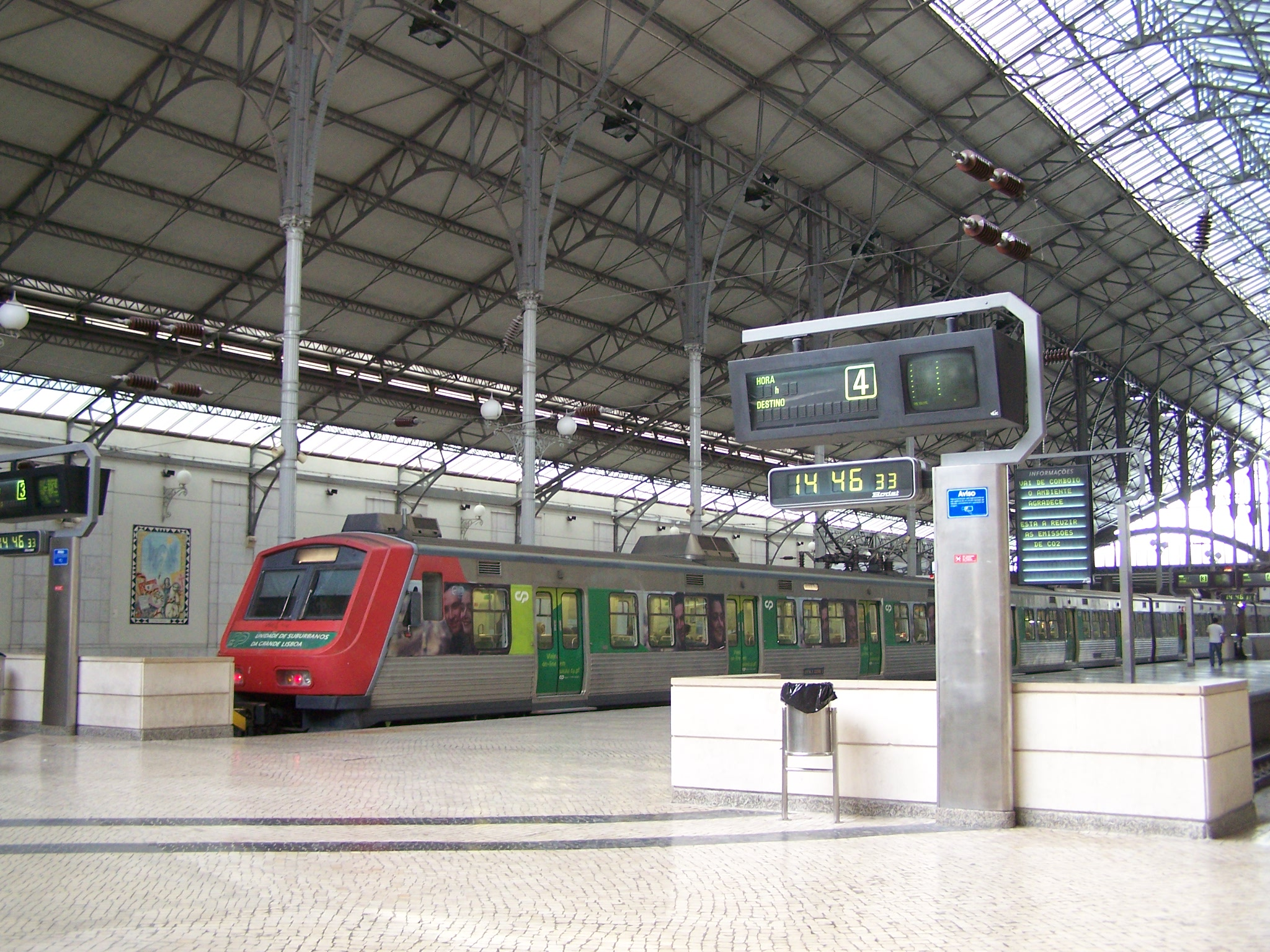 Lisbon's urban rail train station Rossio